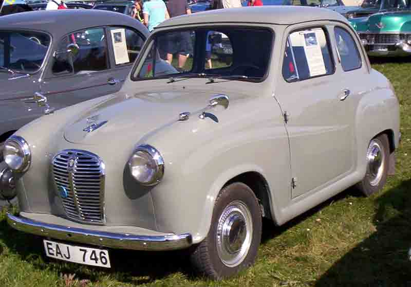 Austin A30 2-Door Saloon 1954